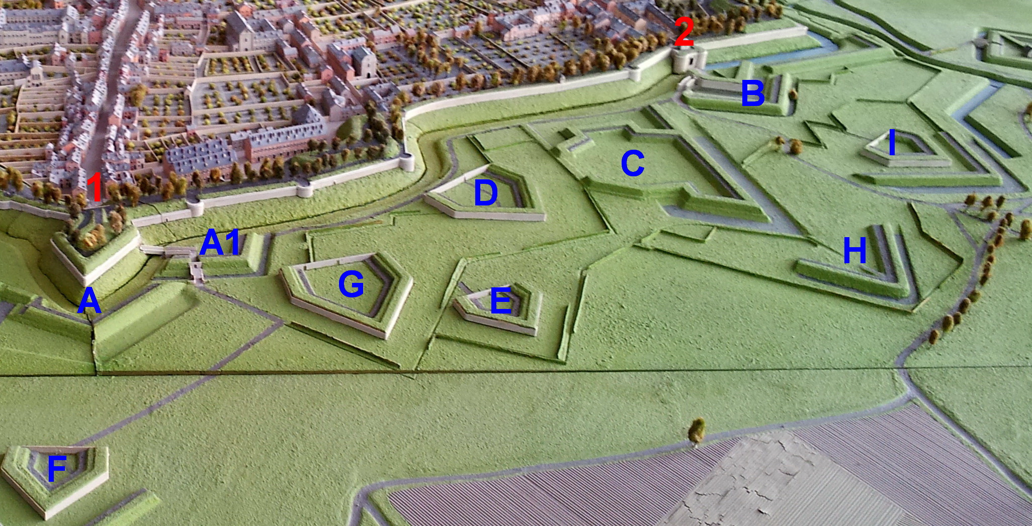 Detail of the Maquette of Maastricht with a view of the fortifications to the south-west of the city between Brusselsepoort (1) and Tongersepoort (2). The scale model was made in 1974-1982 and is a genuine copy of the mid-18th-century original maquette made for King Louis XV of France (now in the Palais des Beaux-Arts in Lille).